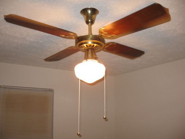 A "Tropical Breeze Delux"[sic] ceiling fan, made by Moss.